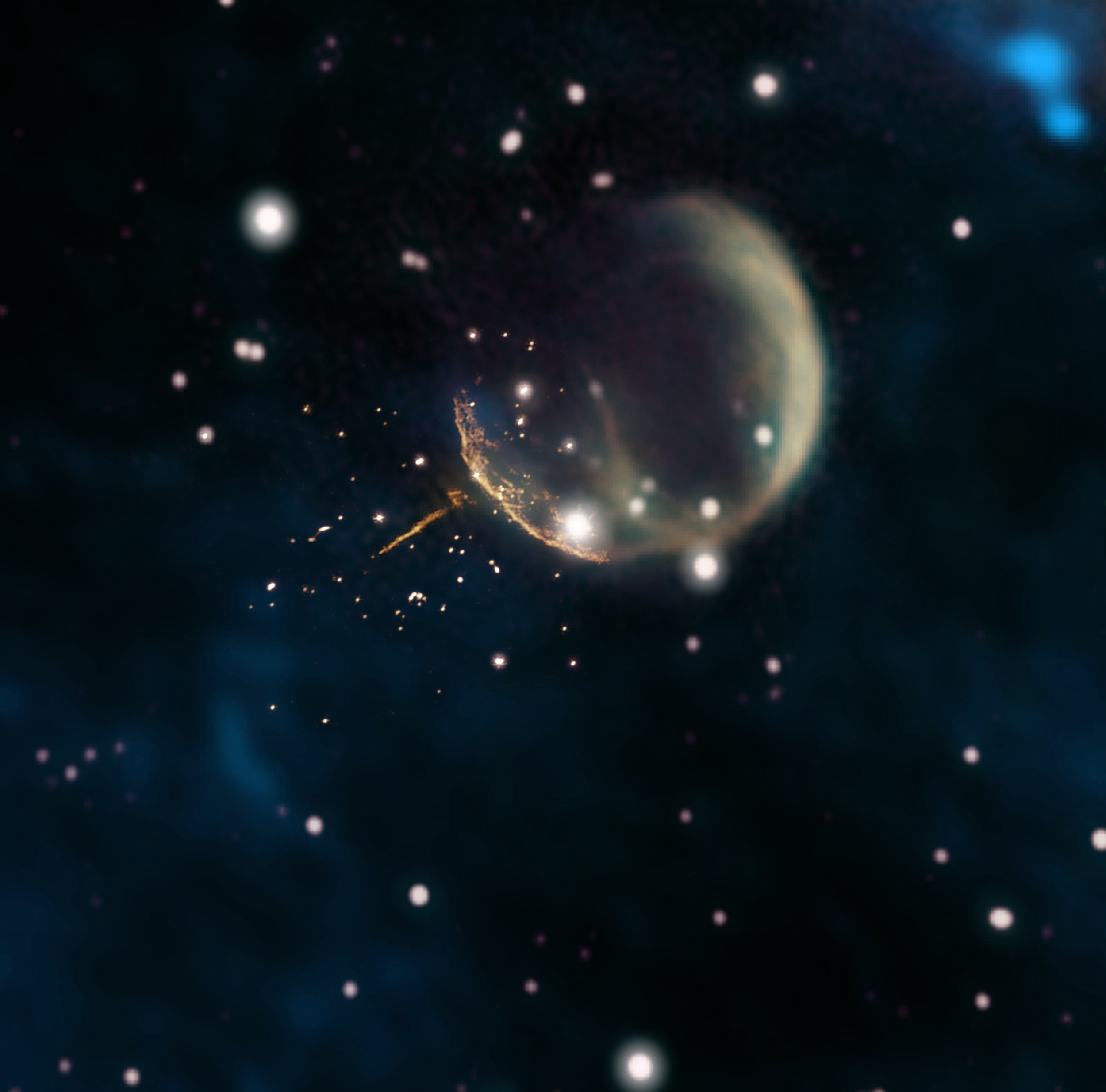 Observations using the Very Large Array (orange) reveal the needle-like trail of pulsar J0002+6216 outside the shell of its supernova remnant, shown in image from the Canadian Galactic Plane Survey. The pulsar escaped the remnant some 5,000 years after the supernova explosion.